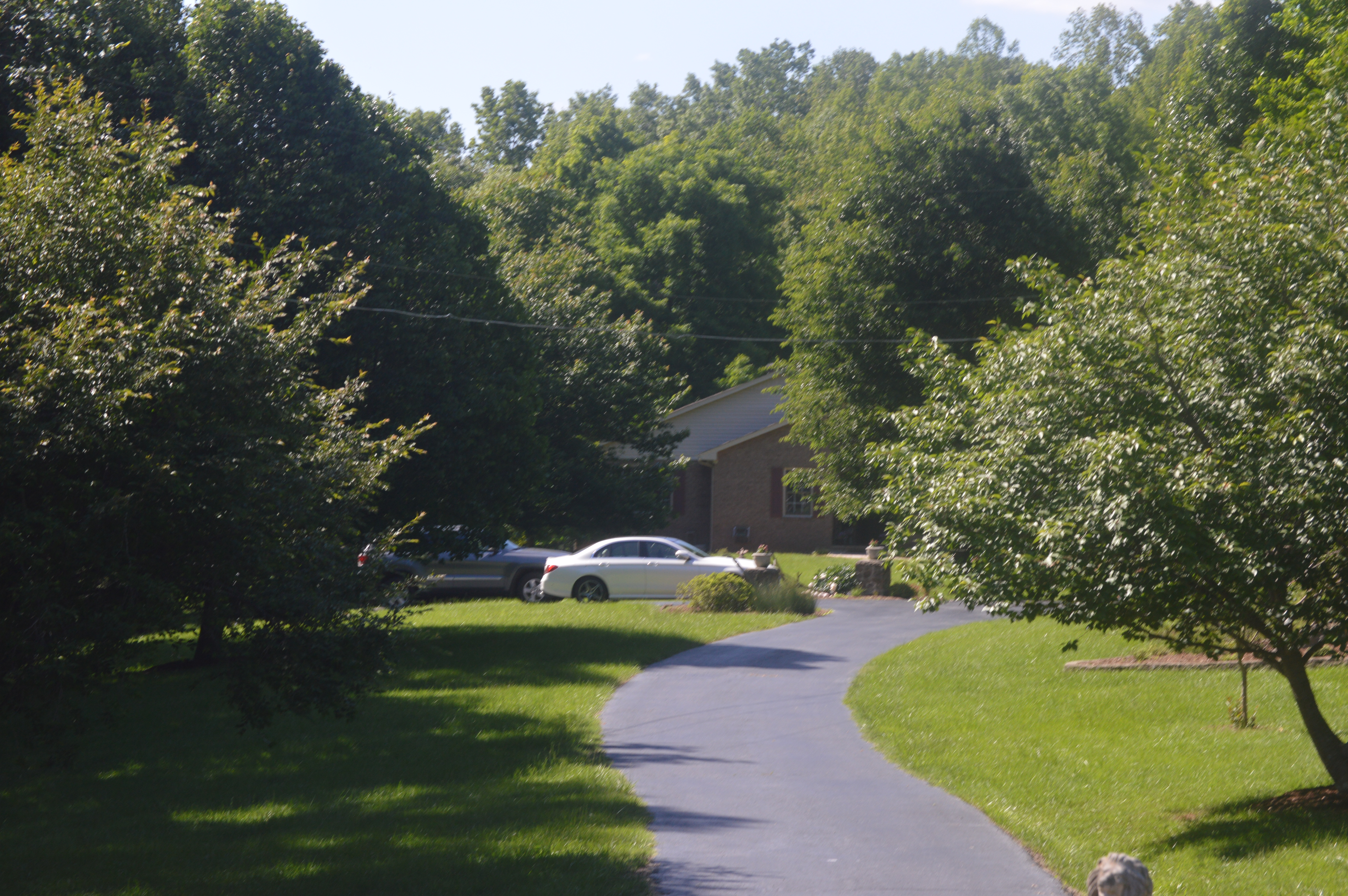 Looking toward the Rock Run School (buried in the woods just north of this spot), located off John Baker Road northwest of Fieldale in Henry County, Virginia, United States. The school is listed on the National Register of Historic Places.